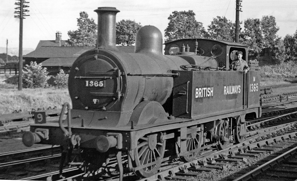 Ashchurch: Midland 0-4-4T engine in transition. View SE; ex-Midland Johnson/Deeley 1P 0-4-4T No. 1365, with the rare early Nationalization 'M' prefix, is on the Down main (Birmingham - Bristol) line, engaged on pilot Duty No.9. The fireman also enjoys being photographed. [This engine was my favourite, as I rode on it as a boy].